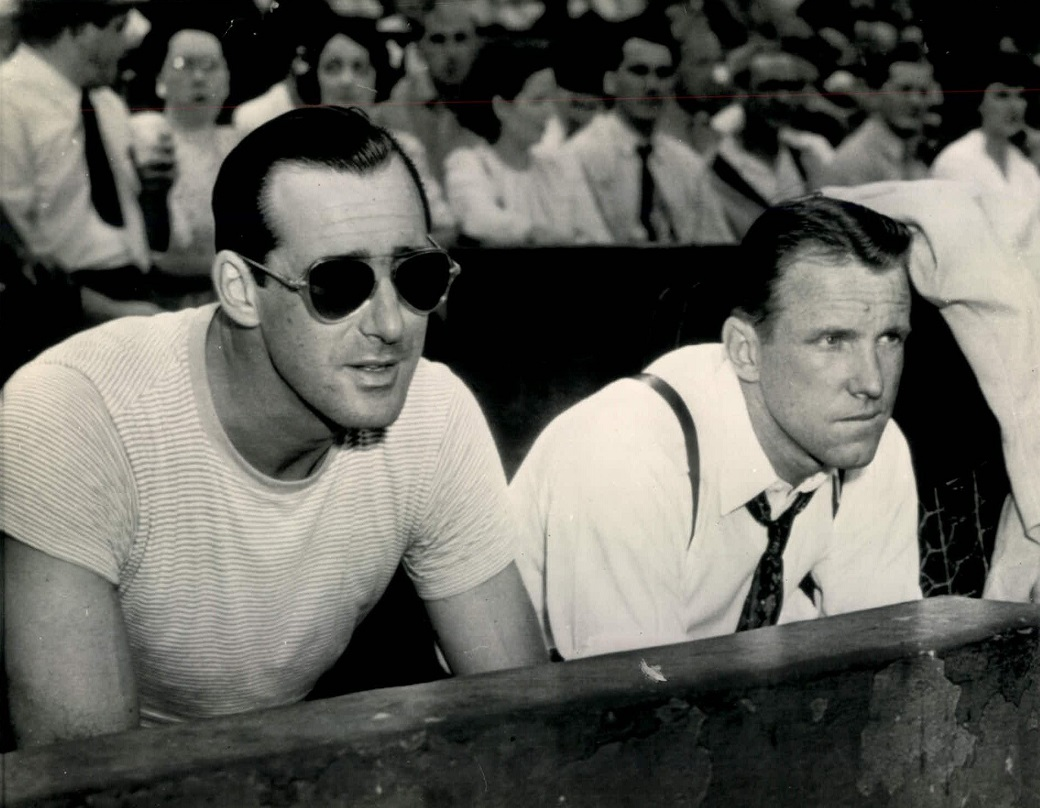 Detroit Tigers players Hank Greenberg (left) and Eddie Mayo